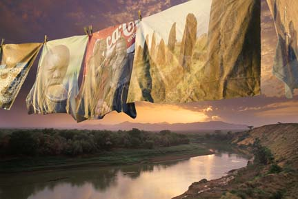 An example of Jānis Miglavs' work.